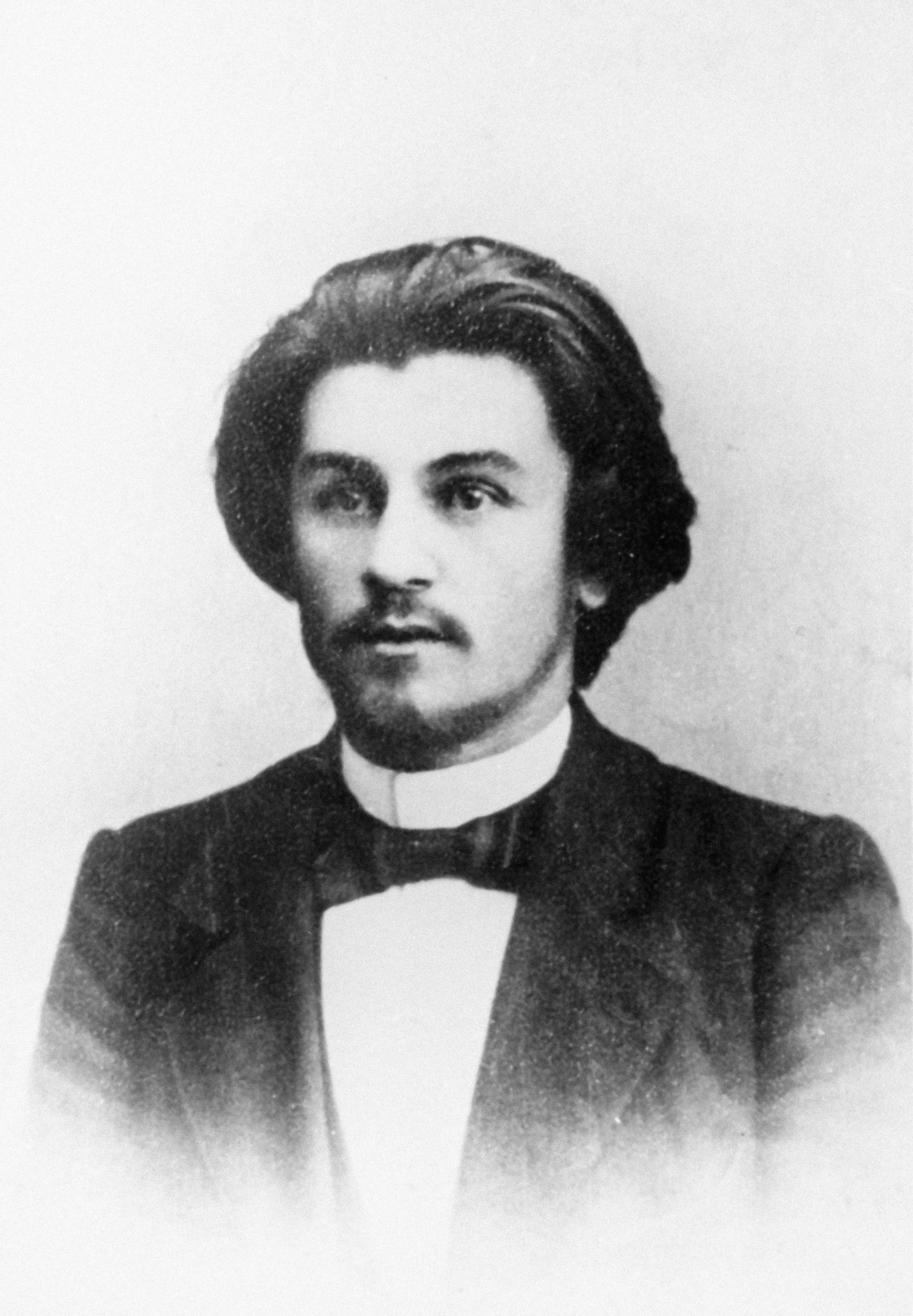 Kazimir Malevich, circa 1900